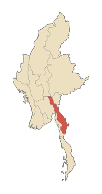 Kayin state in Myanmar